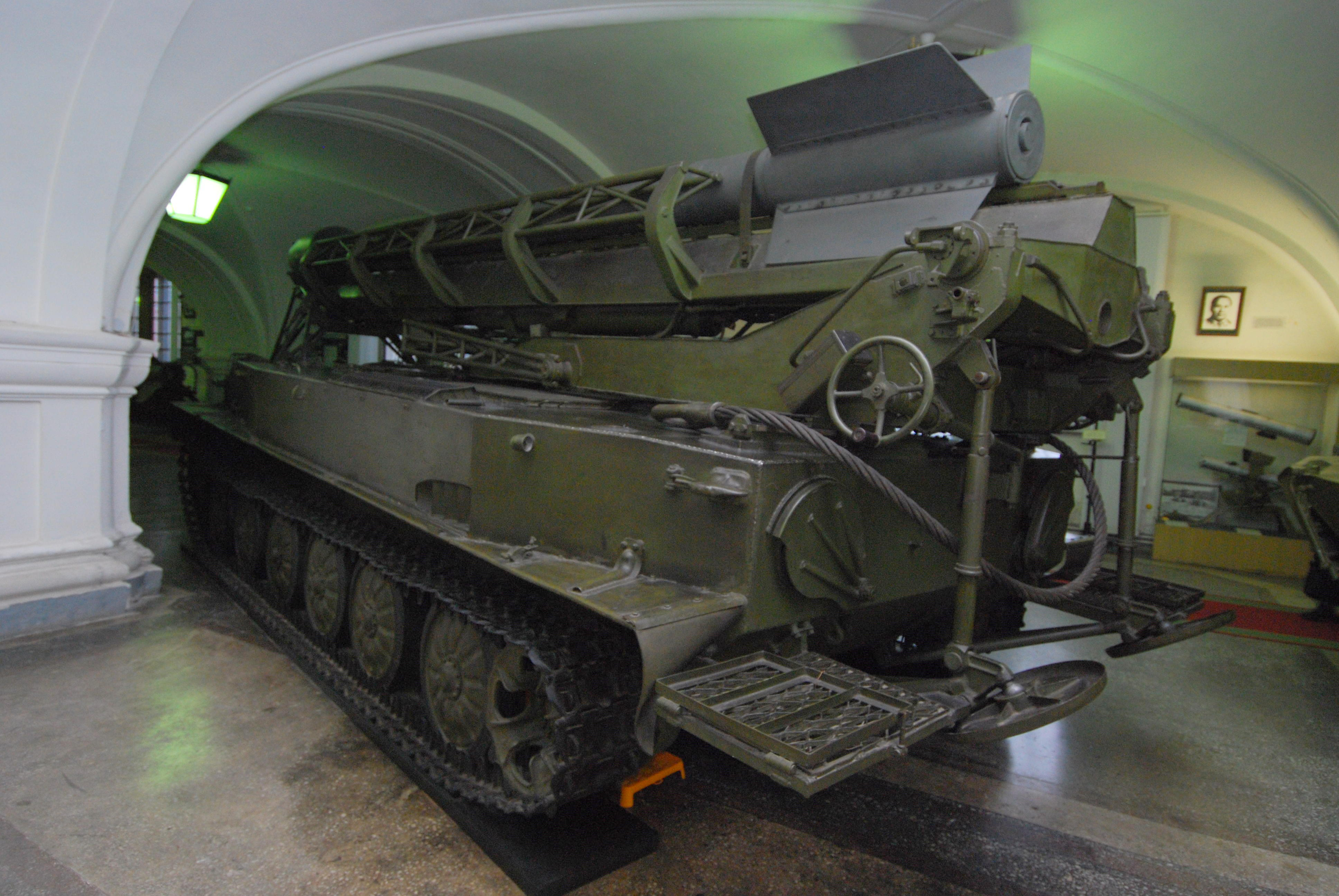 Rear view of 2P2 Transporter-Erector-Launcher with 3R1 missile of 2K1 missile complex «Mars» in Saint Petersburg Artillery museum